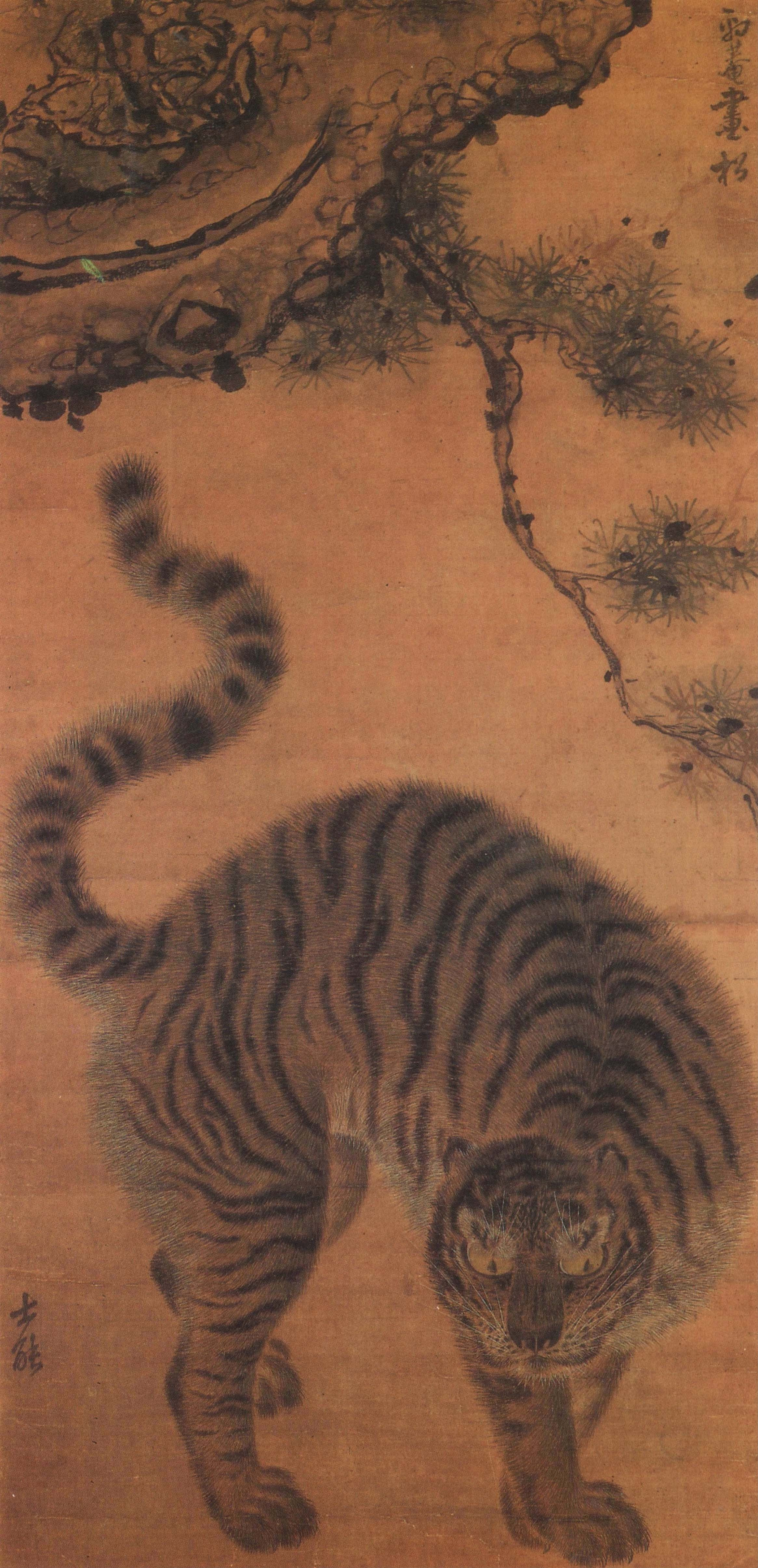 Kim Hong-do(1745-1806?), "Songhamaenghodo" (Tiger under the pine tree). Color on silk, H. 90,4 cm. Ho-Am Art Museum